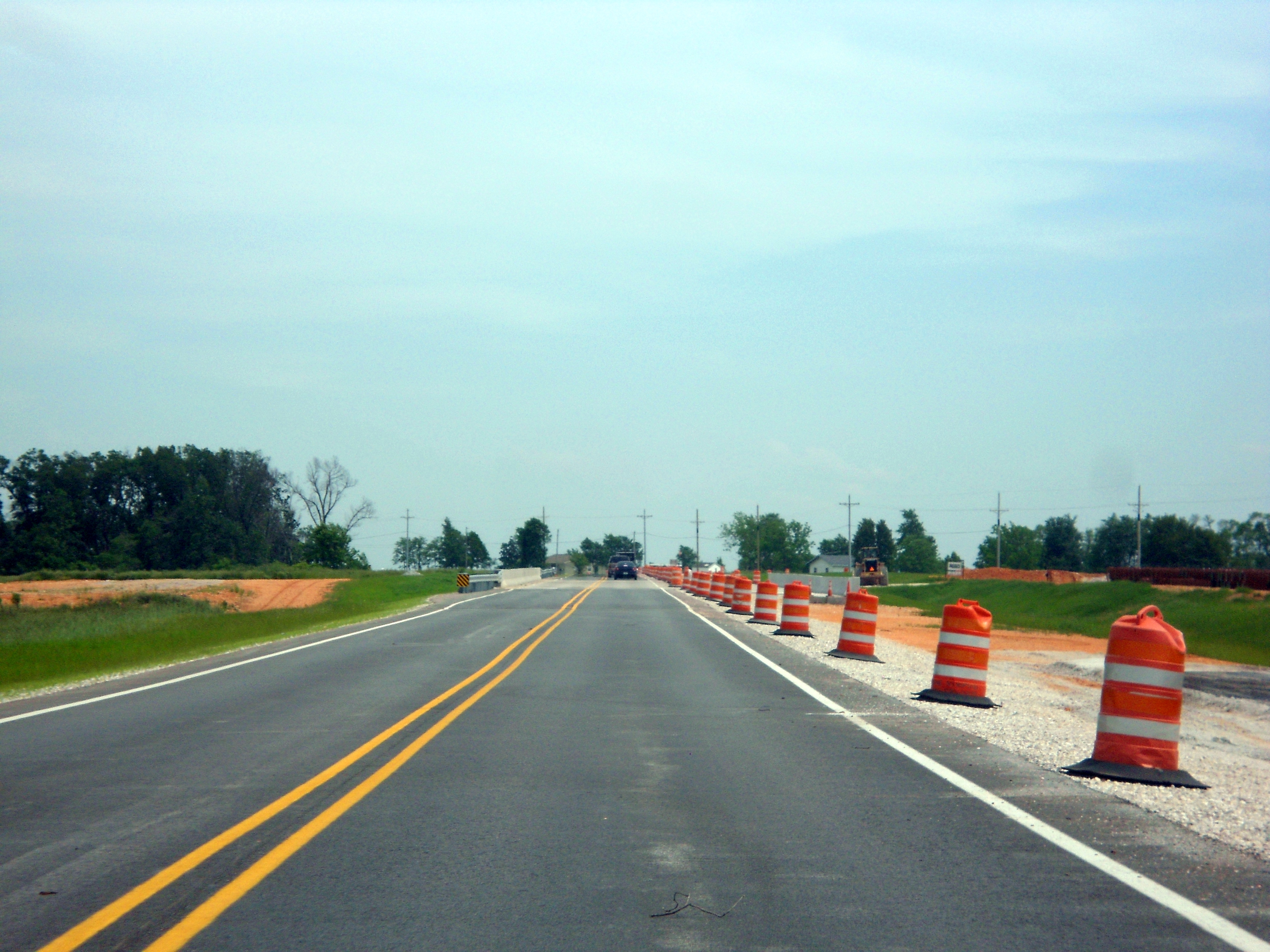 Highway 72 along new routing during construction of phase 1 of the Bella Vista Bypass